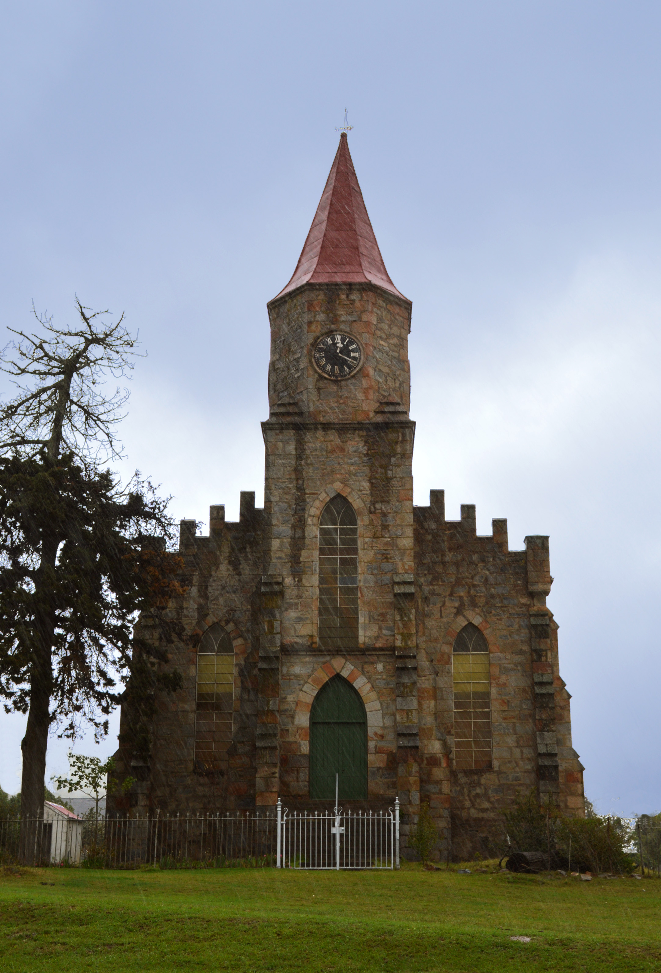 The Dutch Reformed church in Riebeek East, Makana Local Municipality, South Africa